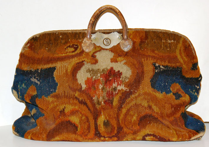 American carpetbag circa 1860; wool with leather handles.